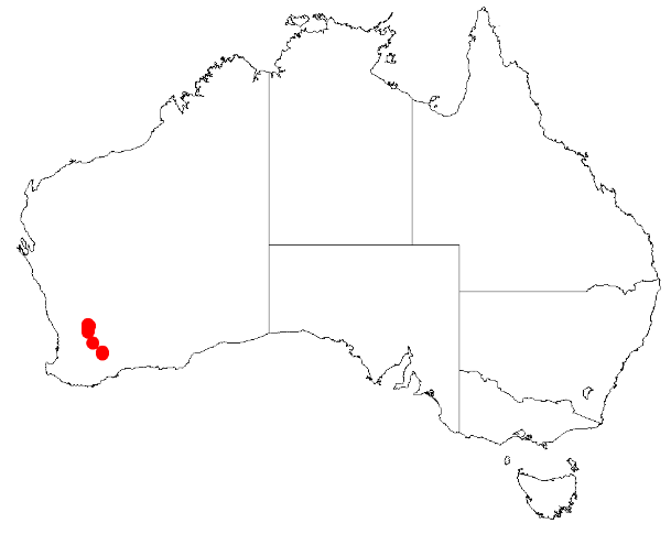 Acacia caesariata Occurrence data from Australasia Virtual Herbarium downloaded from on 8 December 2018